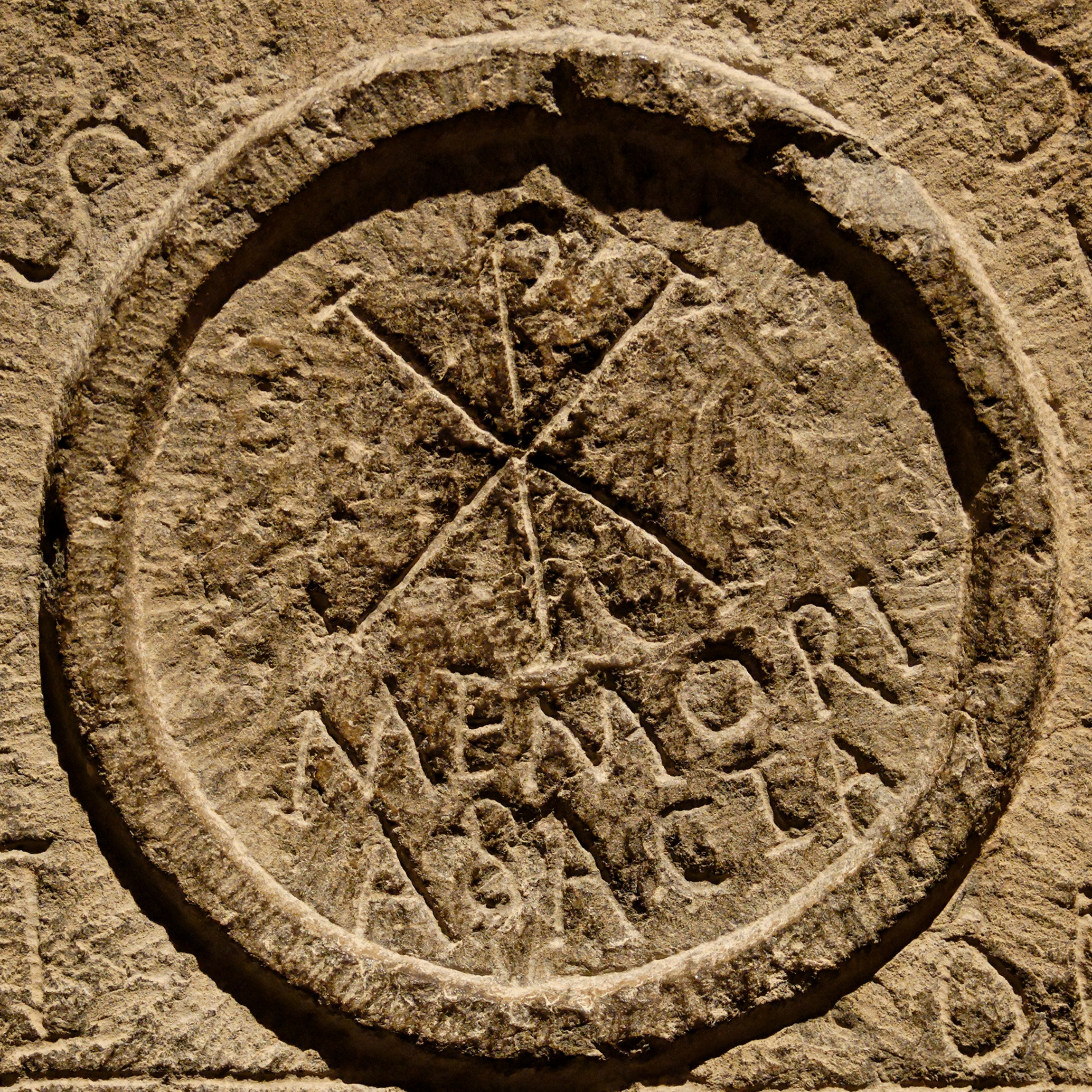 Chi Rho symbol, detail from a mensa (altar stone). Limestone, third quarter of the 4th century. From Khirbet Um El’Amad, Algeria.